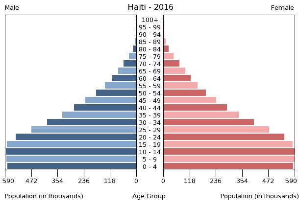 The population pyramid of Haiti illustrates the age and sex structure of population and may provide insights about political and social stability, as well as economic development. The population is distributed along the horizontal axis, with males shown on the left and females on the right. The male and female populations are broken down into 5-year age groups represented as horizontal bars along the vertical axis, with the youngest age groups at the bottom and the oldest at the top. The shape of the population pyramid gradually evolves over time based on fertility, mortality, and international migration trends.